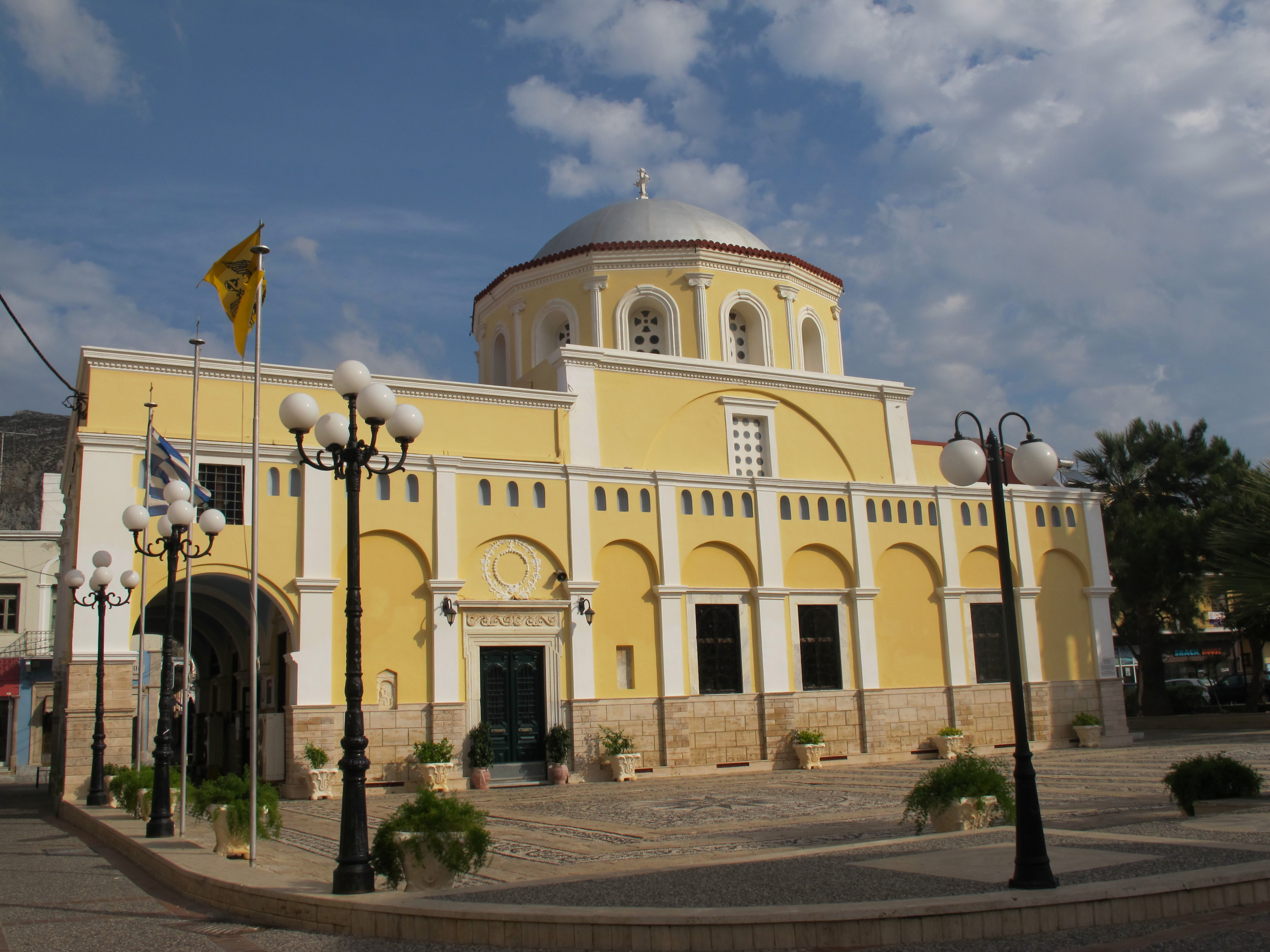 Metamorfosi Sotiros Christou Cathedral in Pothia Kalymnos. It was built in 1861.